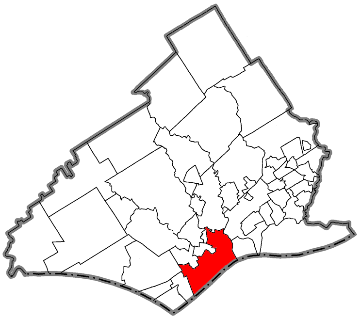 Showing the location within Delaware County, Pennsylvania.